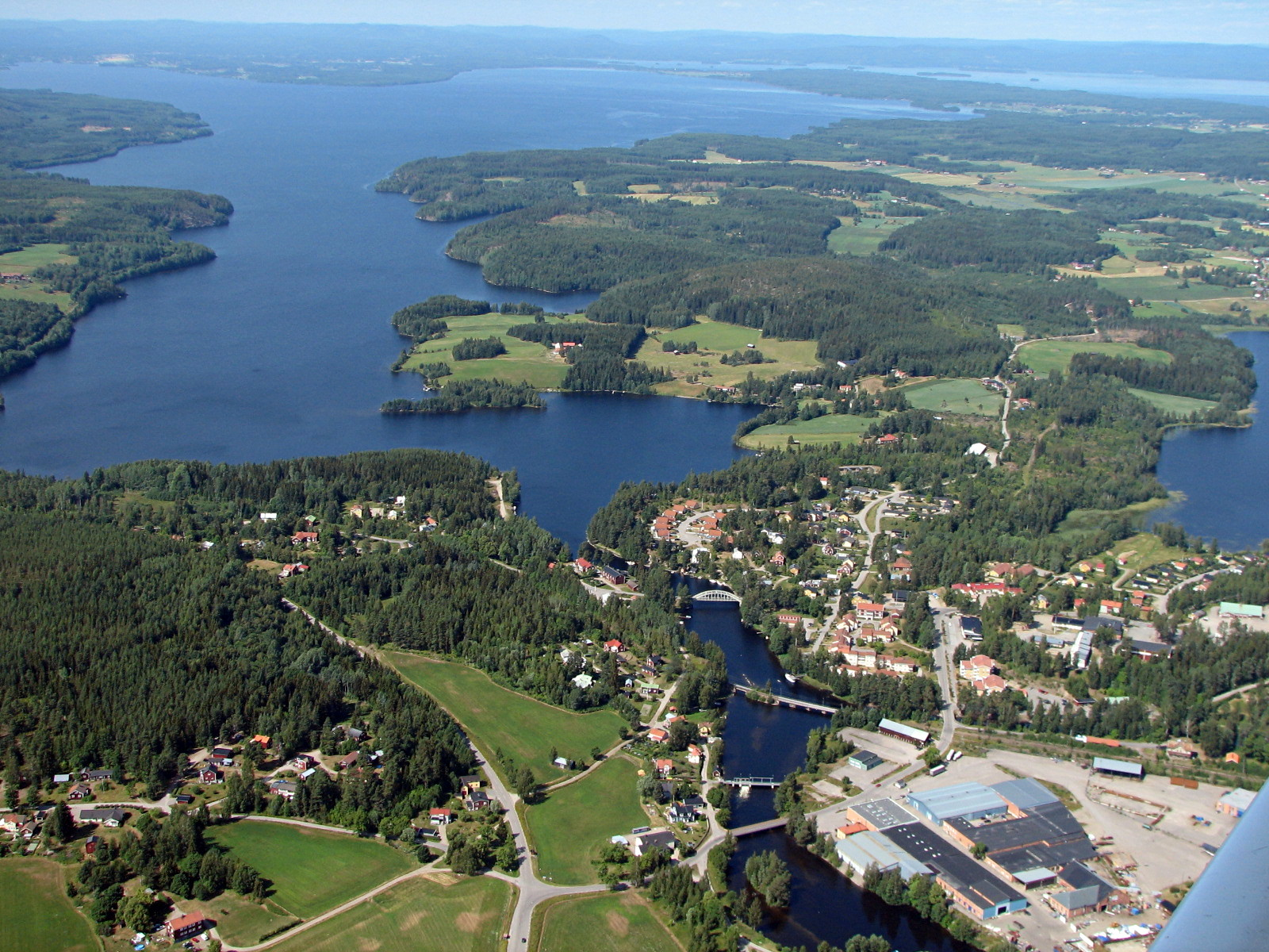 Village Näsviken in Hälsingland, Sweden. The Y-shaped lake Sördellen is in the background. Wiew direction WNW.